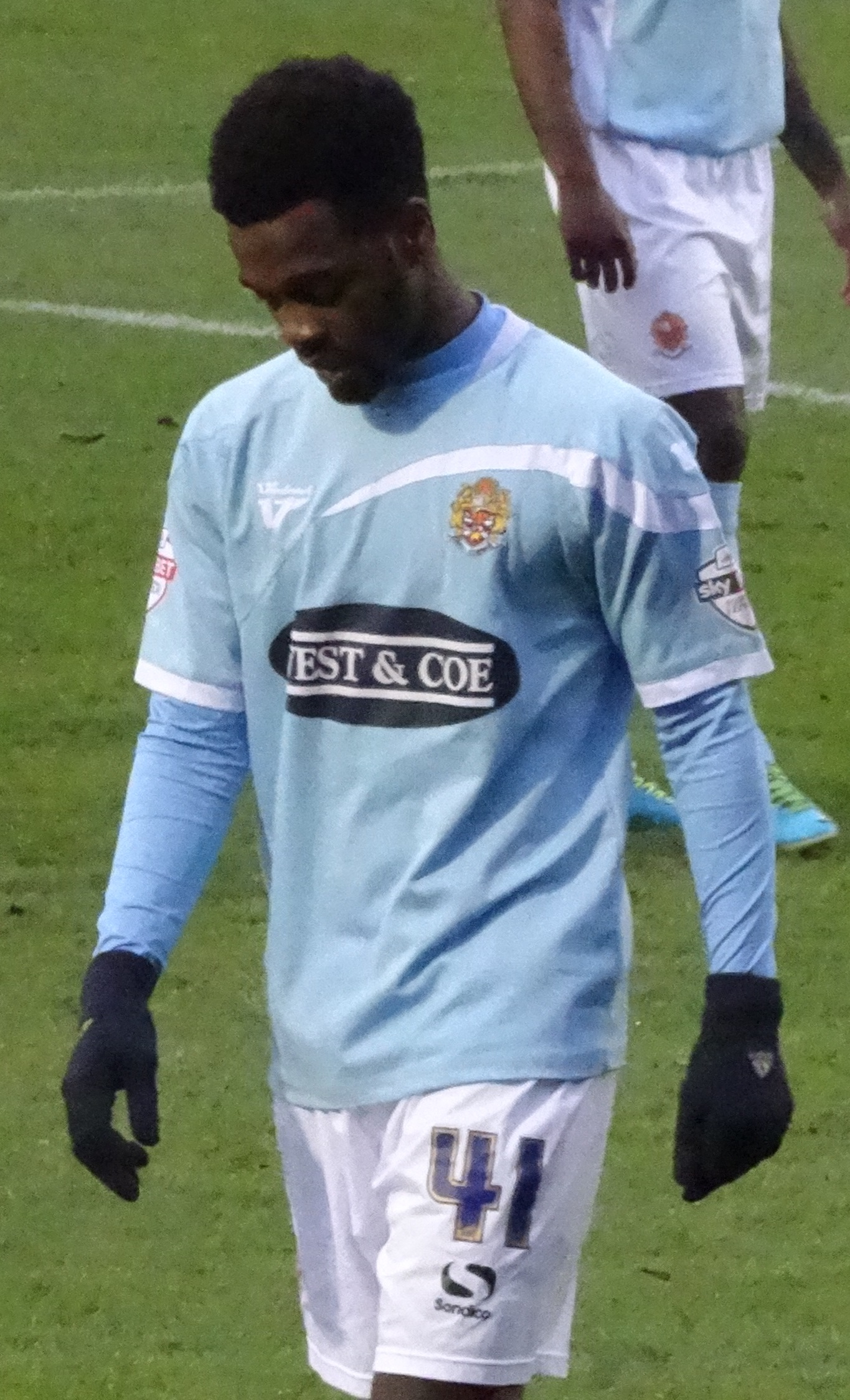 Zavon Hines.